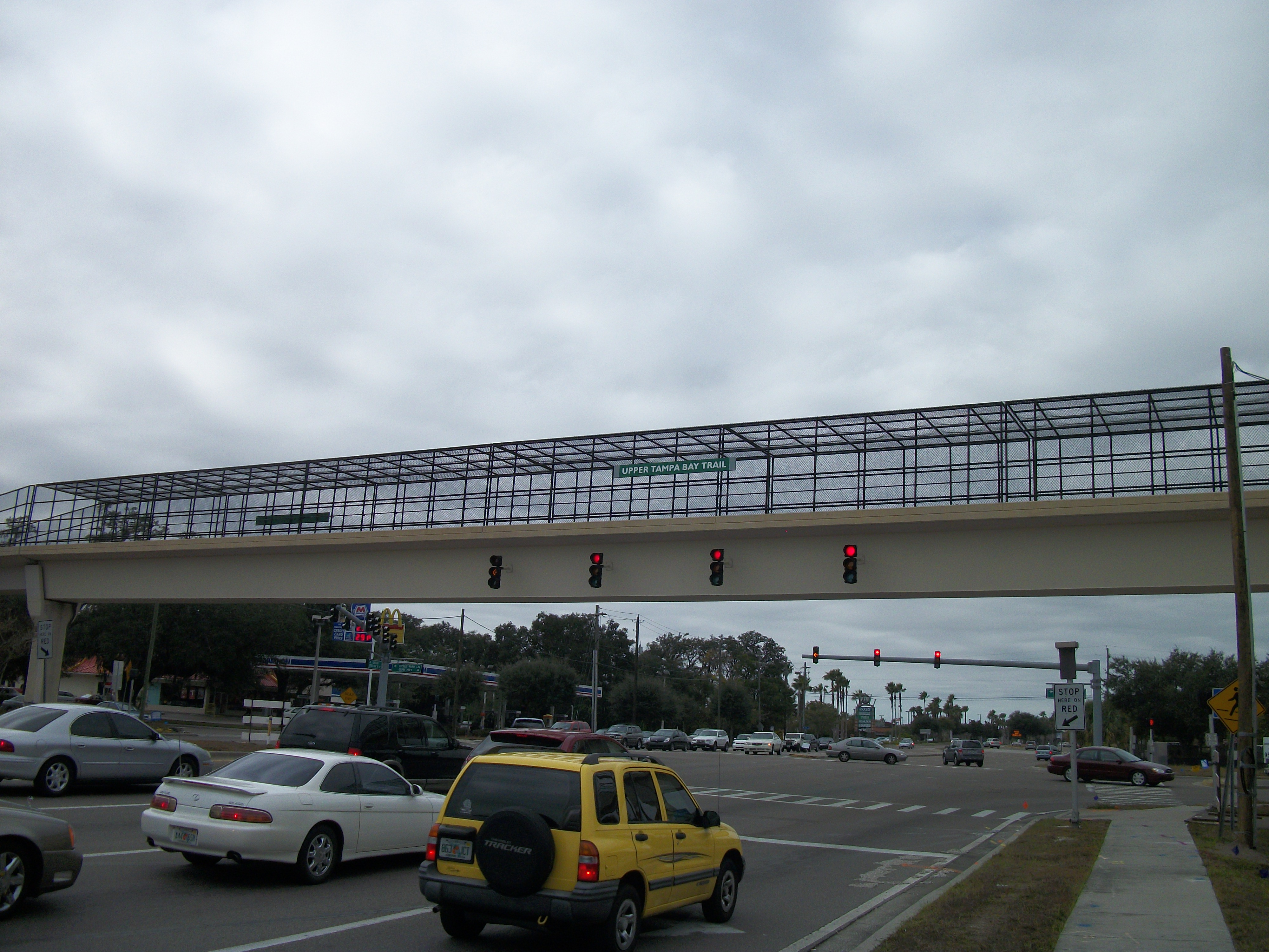 The Upper Tampa Bay Trail bridge over Gunn Highway(Hillsborough CR 587) at the Intersection with Citrus Park Drive(to Hillsbrough CR 589) and Citrus Park Lane(dead end street) in Citrus Park, Florida. This is just west of the SPUI interchange with the Veteran's Expressway. I have another shot of this bridge from the median of Gunn Highway, hence the "2" in the name.